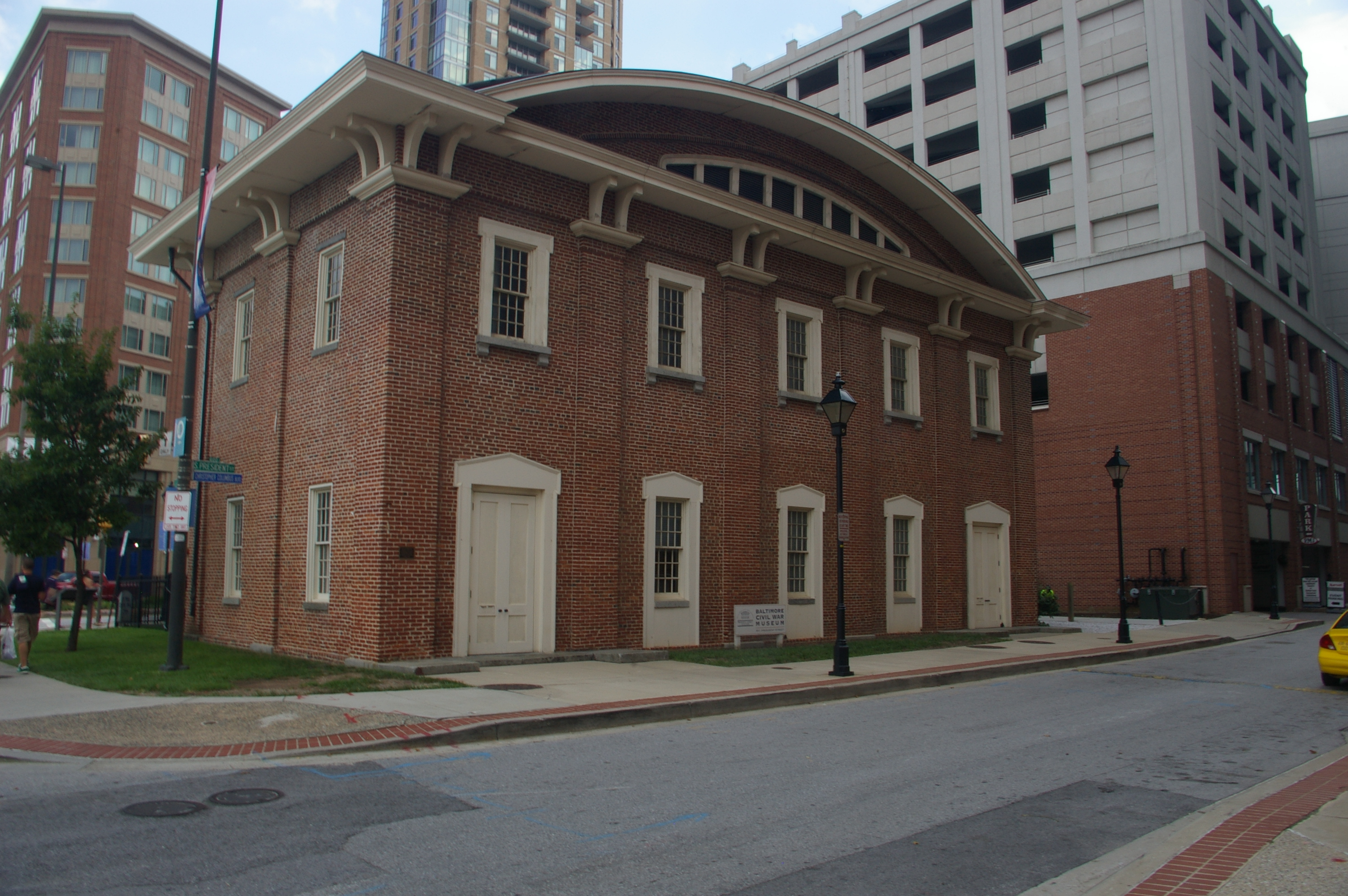 Baltimore Civil War Museum, from the back. Built in 1850 as President Street Station for the Philadelphia, Wilmington and Baltimore Railroad, in Baltimore, Maryland, USA.